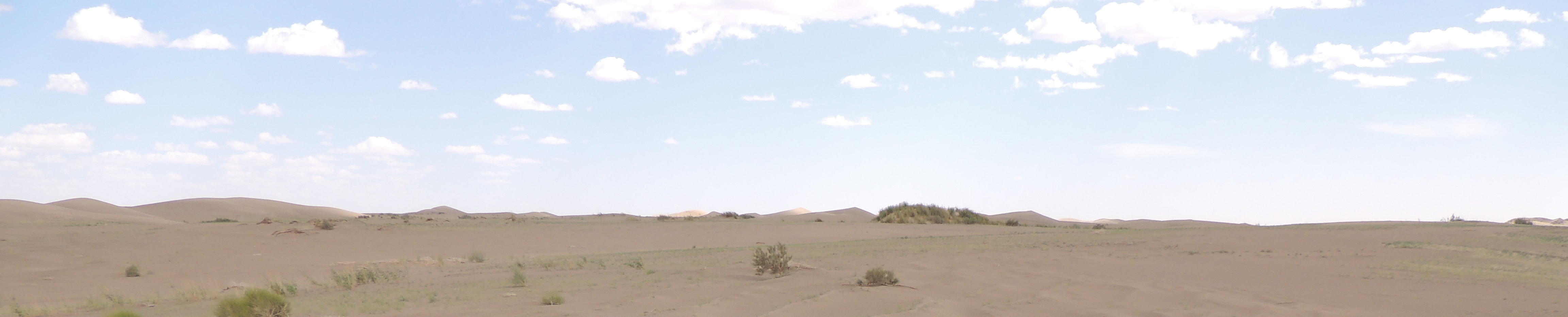 Borzongiin-Govi sands, Ömnögovi Province, Mongolia